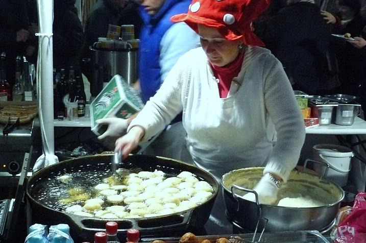 Paczki in Vienna.